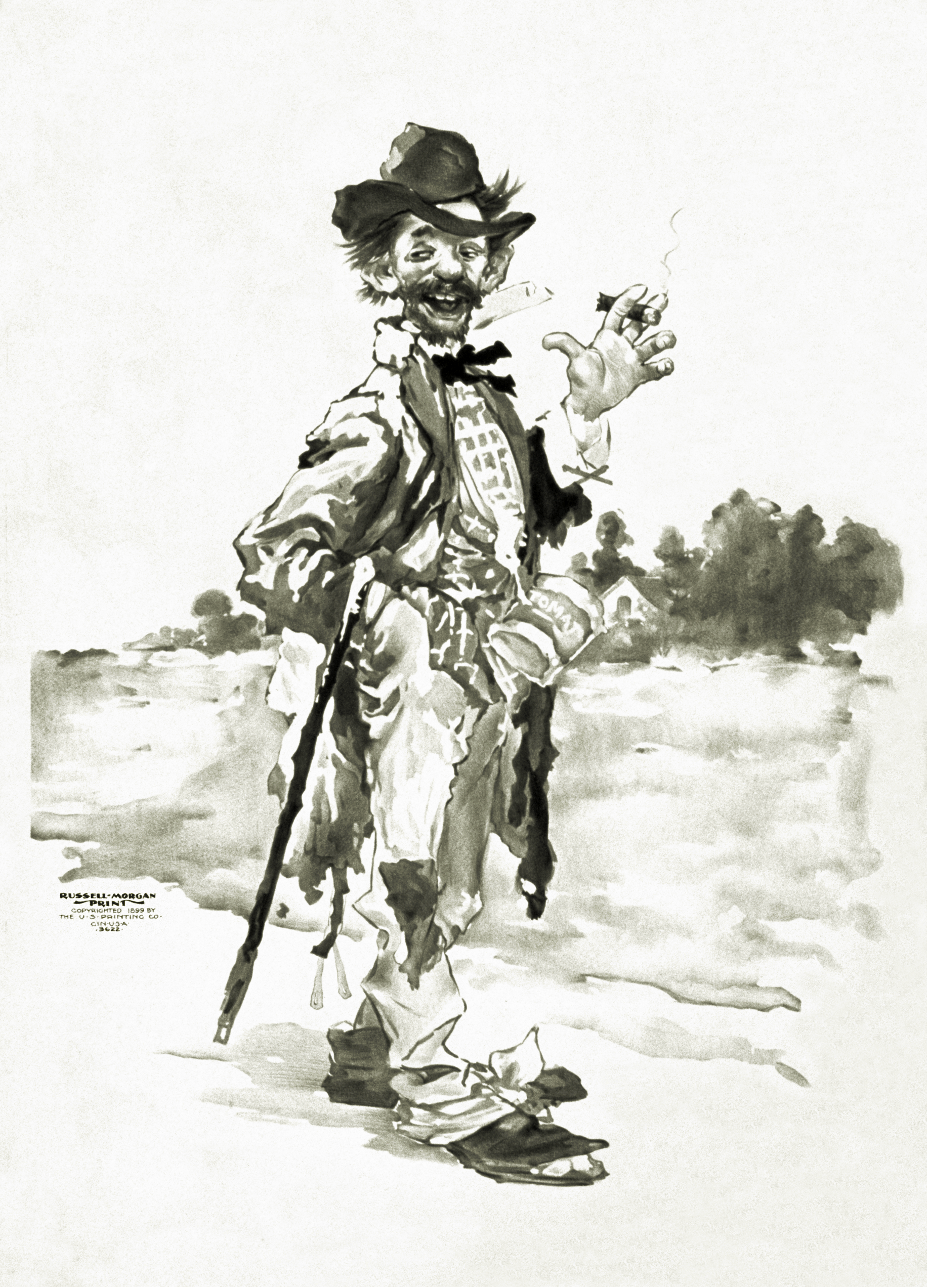 Russel-Morgan Print of a Tramp smoking cigar with cane over arm